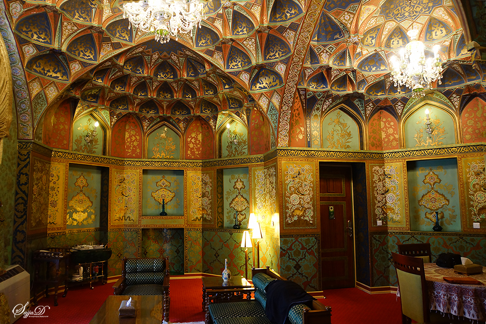 Picture is taken iside one of the rooms in Abbasi Hotel in Isfahan - Iran